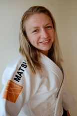 Jaana Sundberg